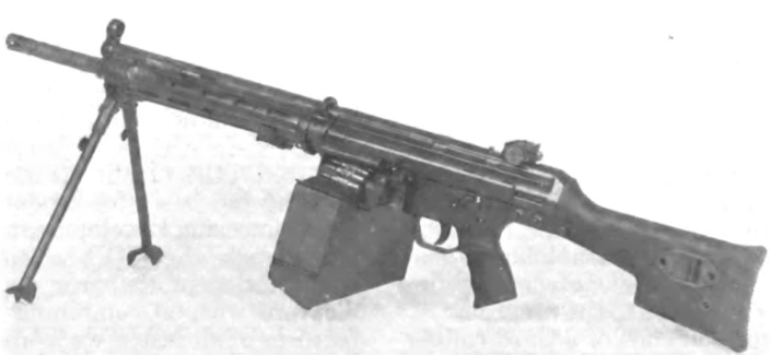 Machinegun, 5.56mm XM262.